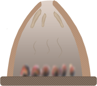 Based on [1] by הלנה מרג